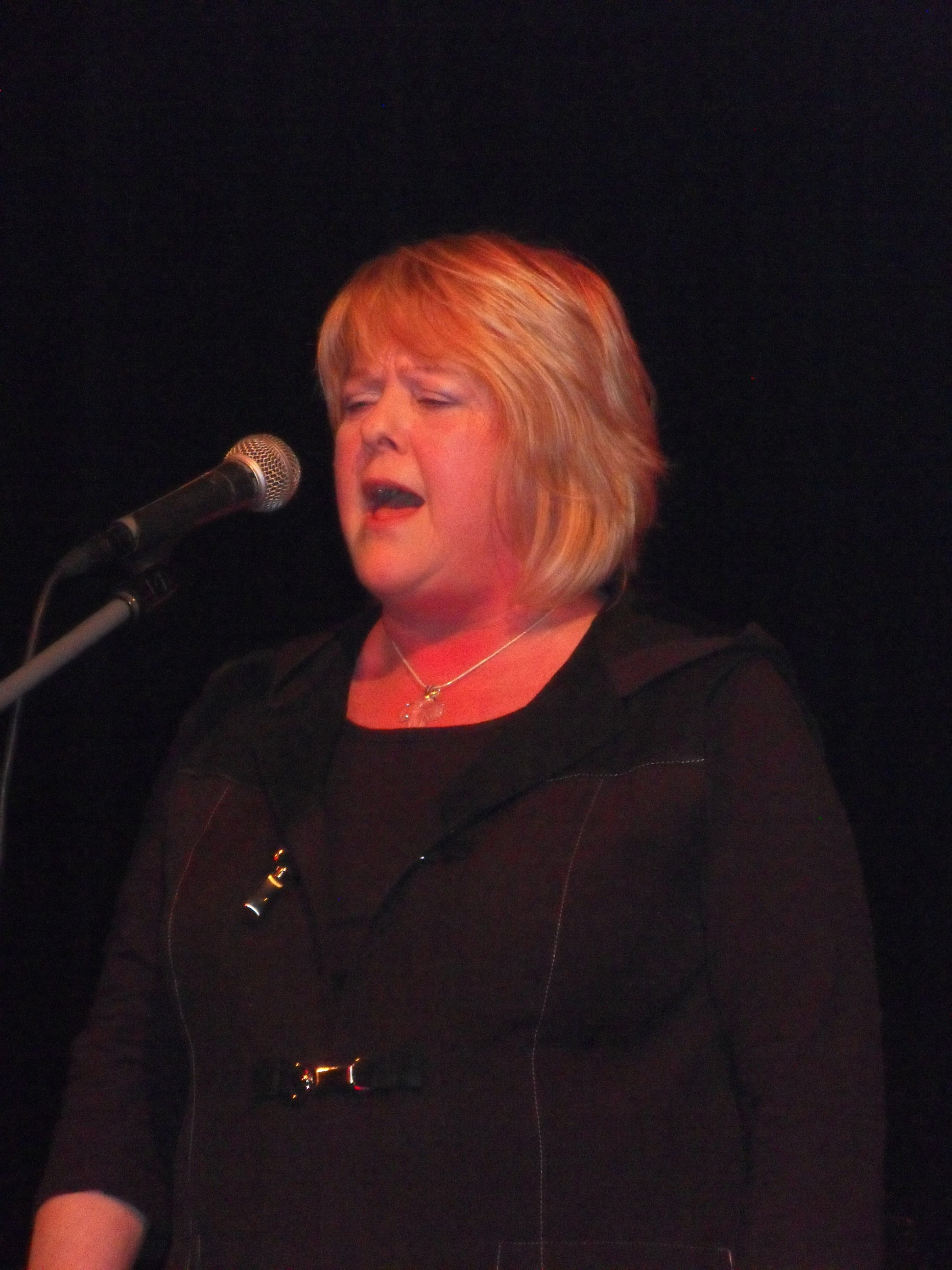 Vocalist Hana Ulrychová of Czech band Javory, Brno, Czech Republic